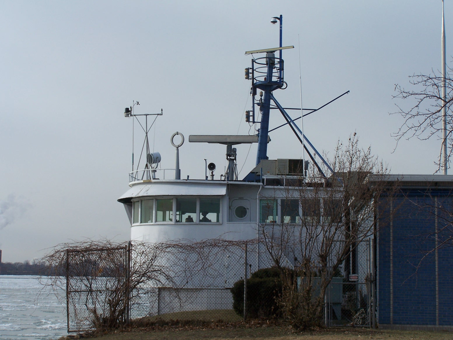 S.S. William Clay Ford Pilot House Exterior. The lake freighter William Clay Ford was scrapped in 1987, the pilot house is preserved at the Dossin Great Lakes Museum on Belle Isle in Detroit, Michigan